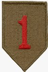 Photograph of US First Infantry Division Insignia